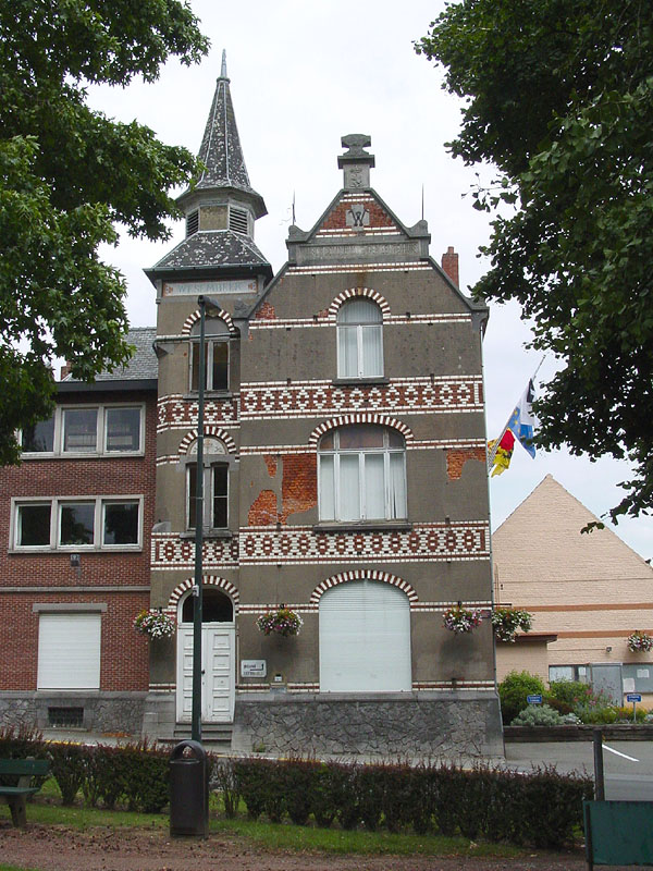 Wezembeek-Oppem Gemeentehuis (town hall). Photograph taken by David Edgar on 30th July 2006.